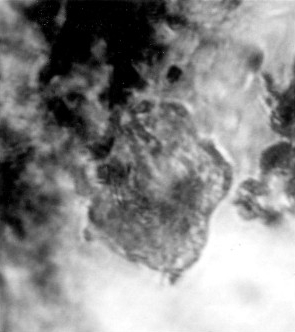 Photo and drawing of Endamoebites proterus n. gen., n. sp. P = protuberance, N = nucleus dividing. Bar = 14 μm.